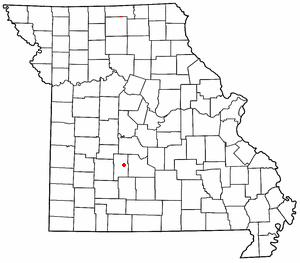 Modified from a map on Wikipedia.